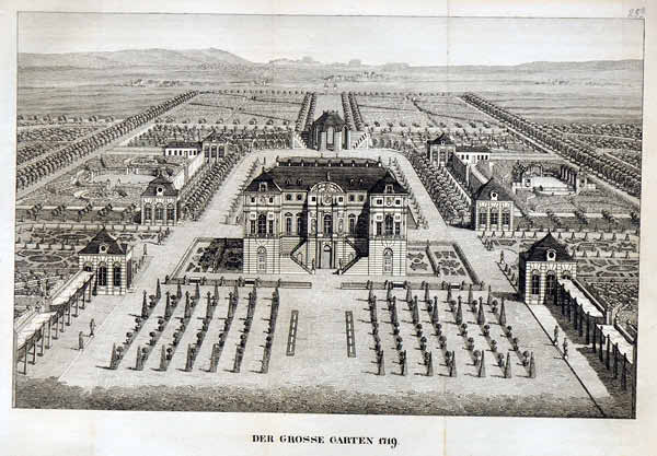 Wood engraving of the palace in the Great Garden in Dresden. Depicted is a celebration of the wedding of Augustus II. in 1719